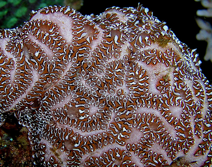 Tunicate colony of the genus Botryllus